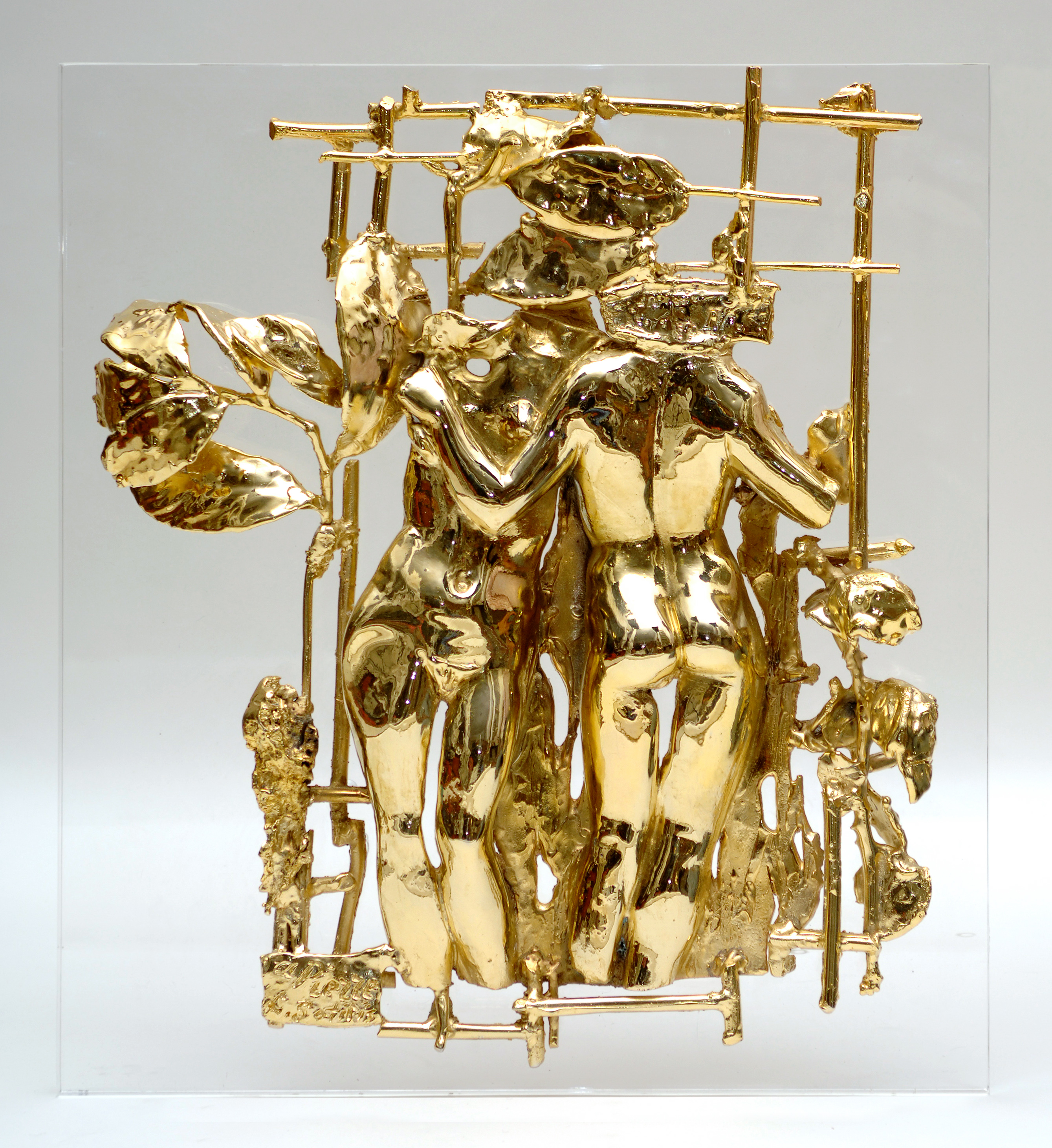 Poem to Sapho 2006